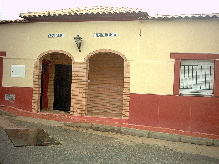 A work release by Francisco Javier Martin Lopez, Casa rural (Cottage Inn), in Solana del Pino, near Sierra Madrona, Ciudad Real Spain 3 December 2005, donated to Wikipedia.